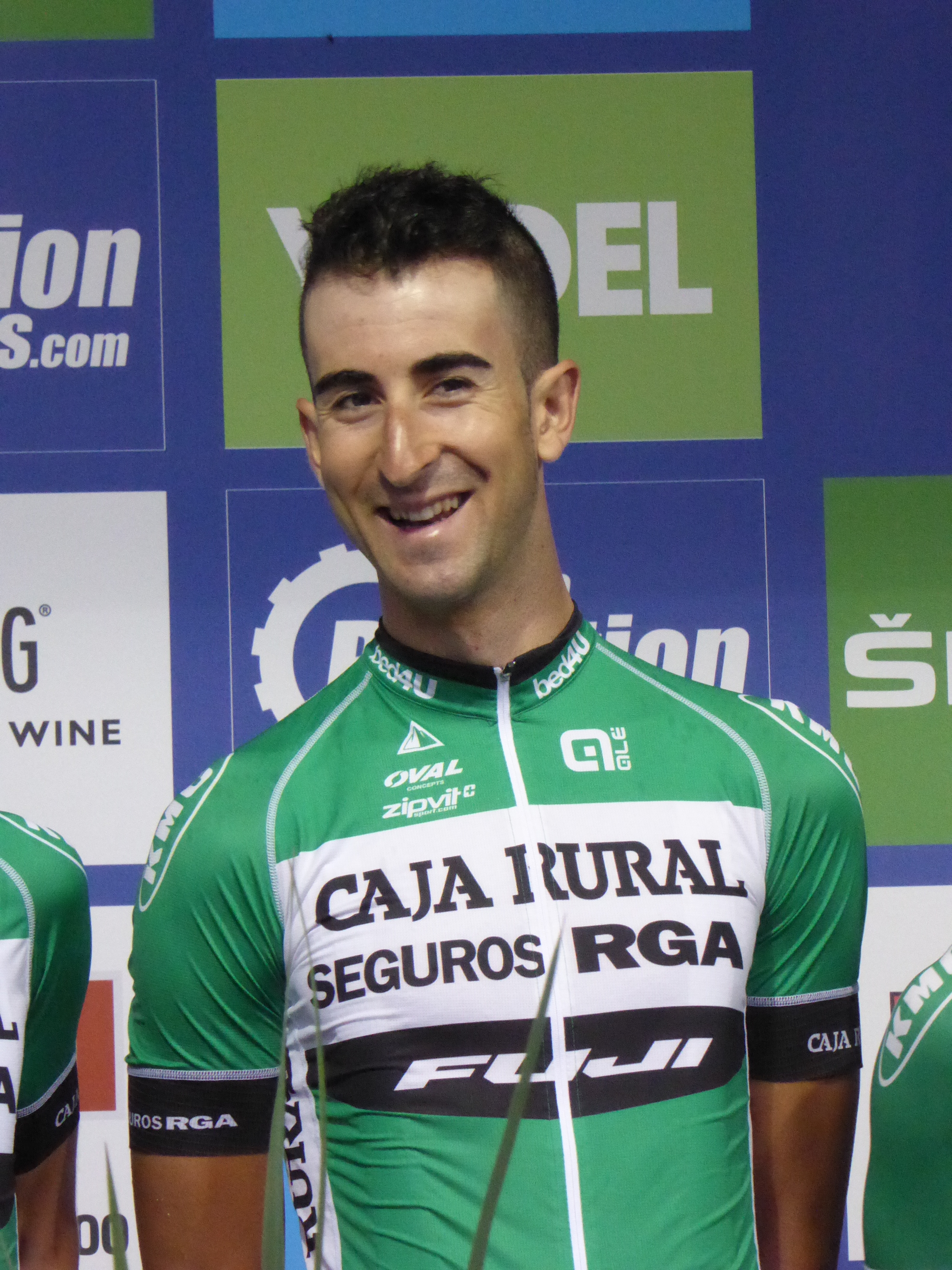 Diego Rubio (Caja Rural-Seguros RGA), pictured at the 2016 Tour of Britain team presentation in Glasgow on 3 September 2016.